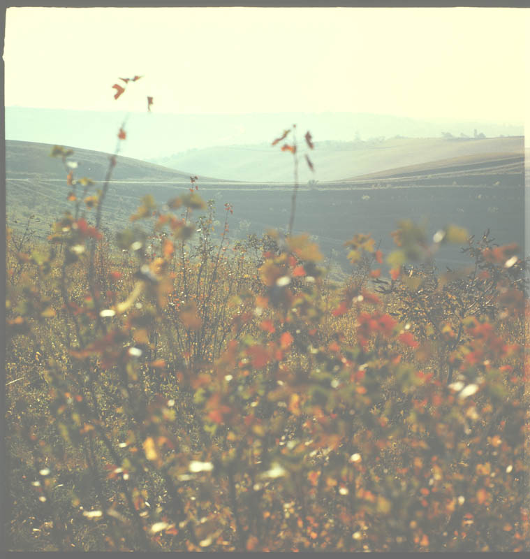 Village Hiliutsy, Ryshkansky area. 80th years.